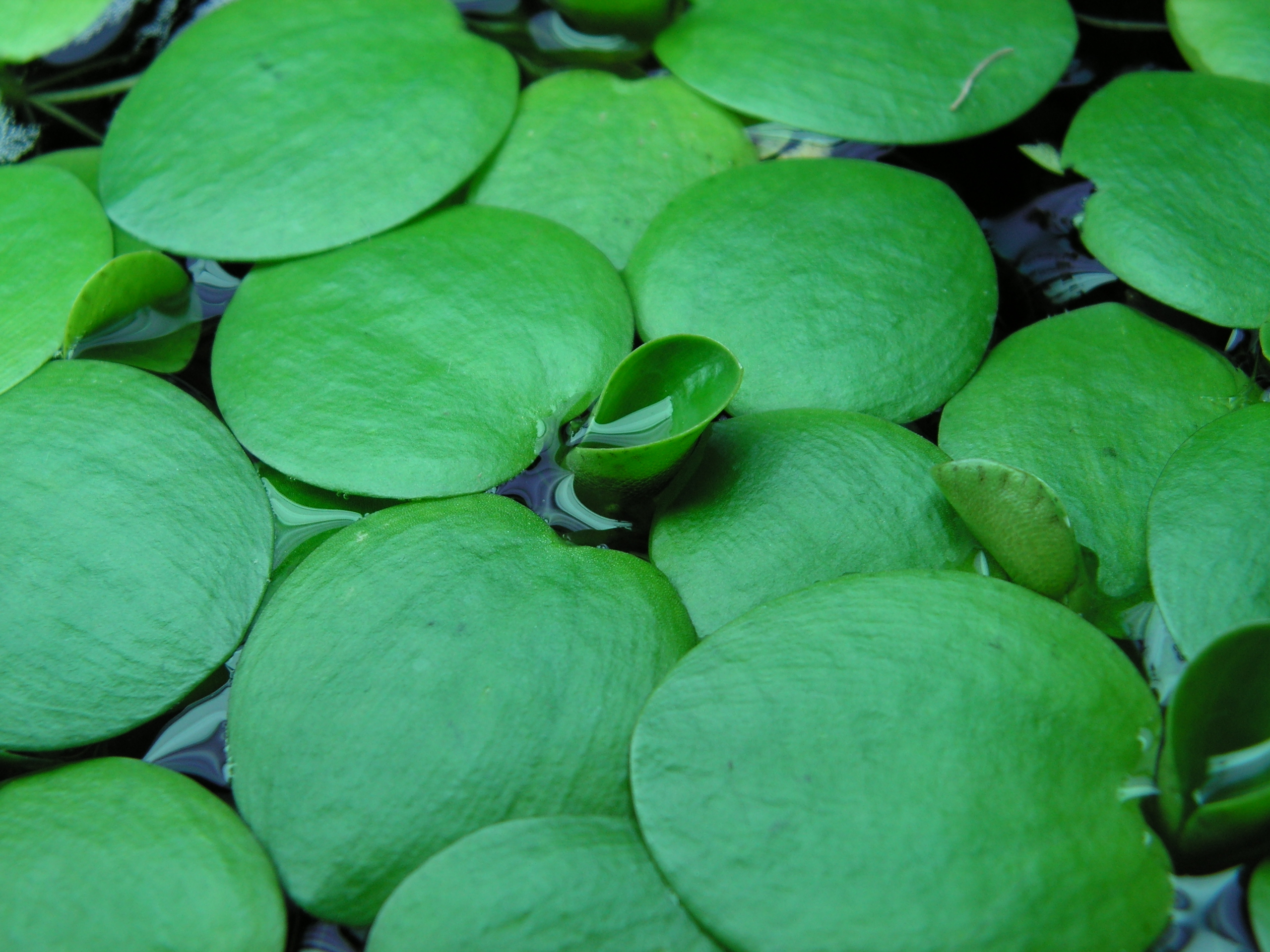 top view of Limnobium laevigatum growing in an aquarium